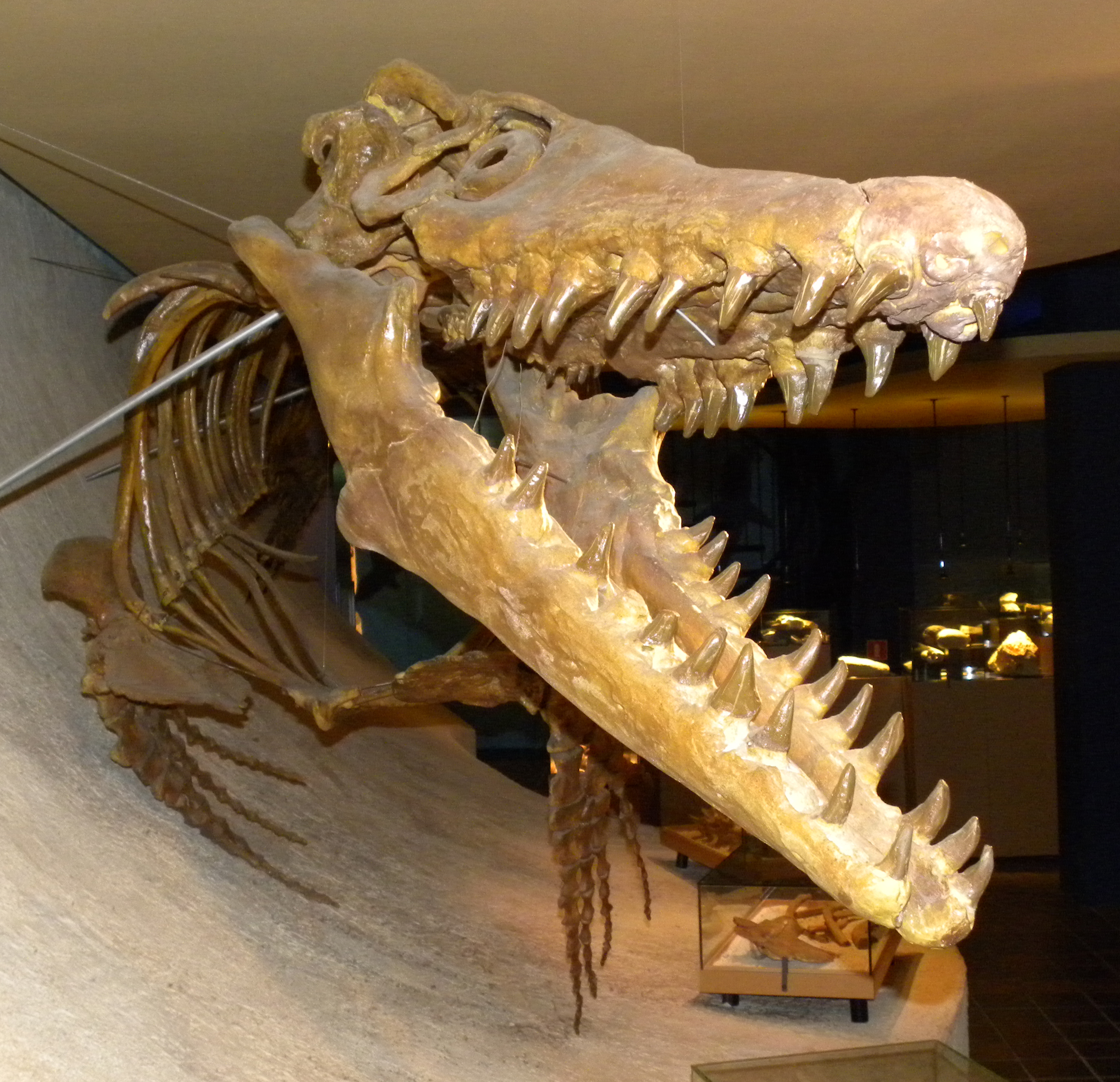 Mosasaurus skeleton; Maastricht Natural History Museum, The Netherlands.